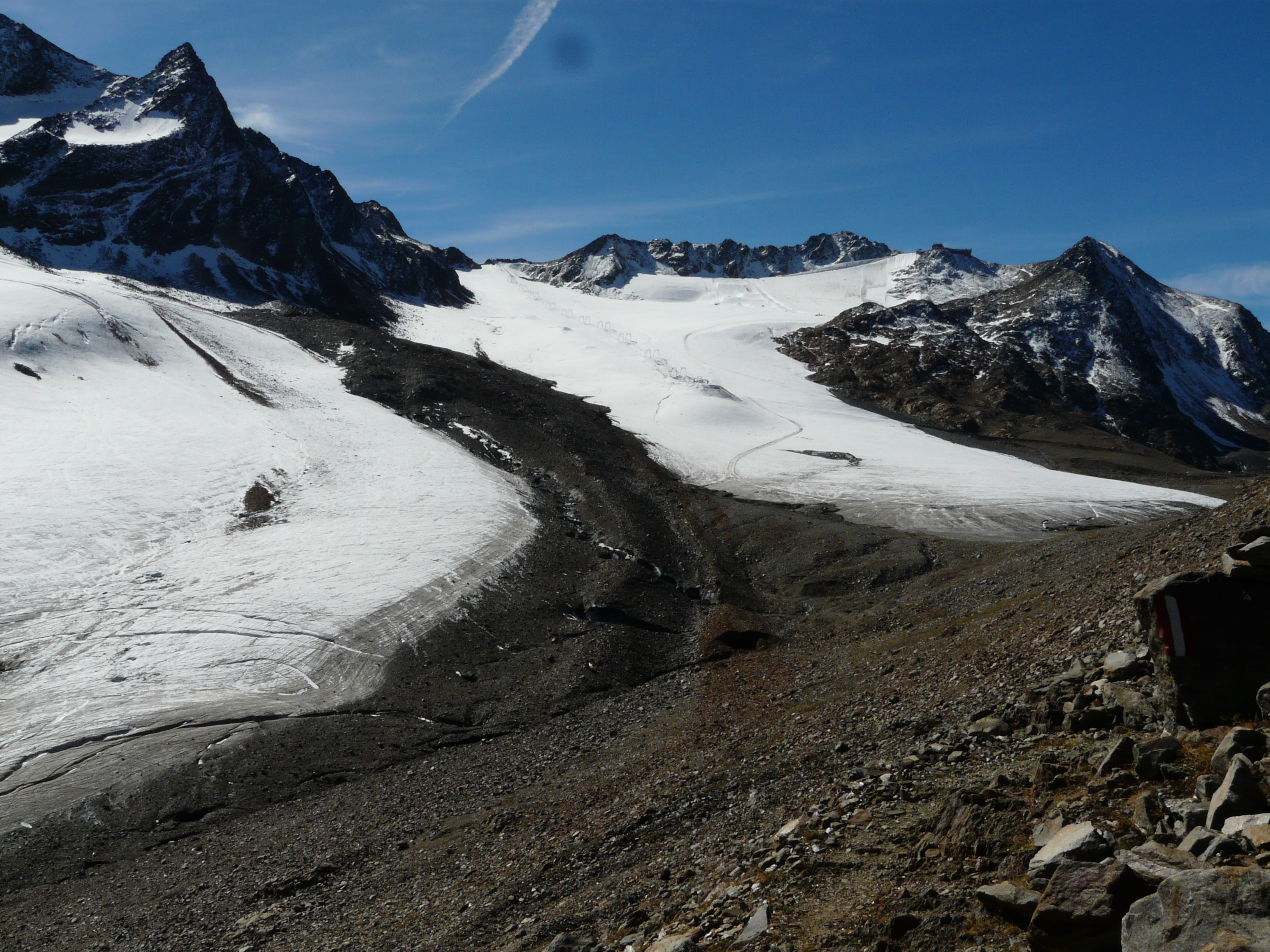 Hochjochferner, Grawand